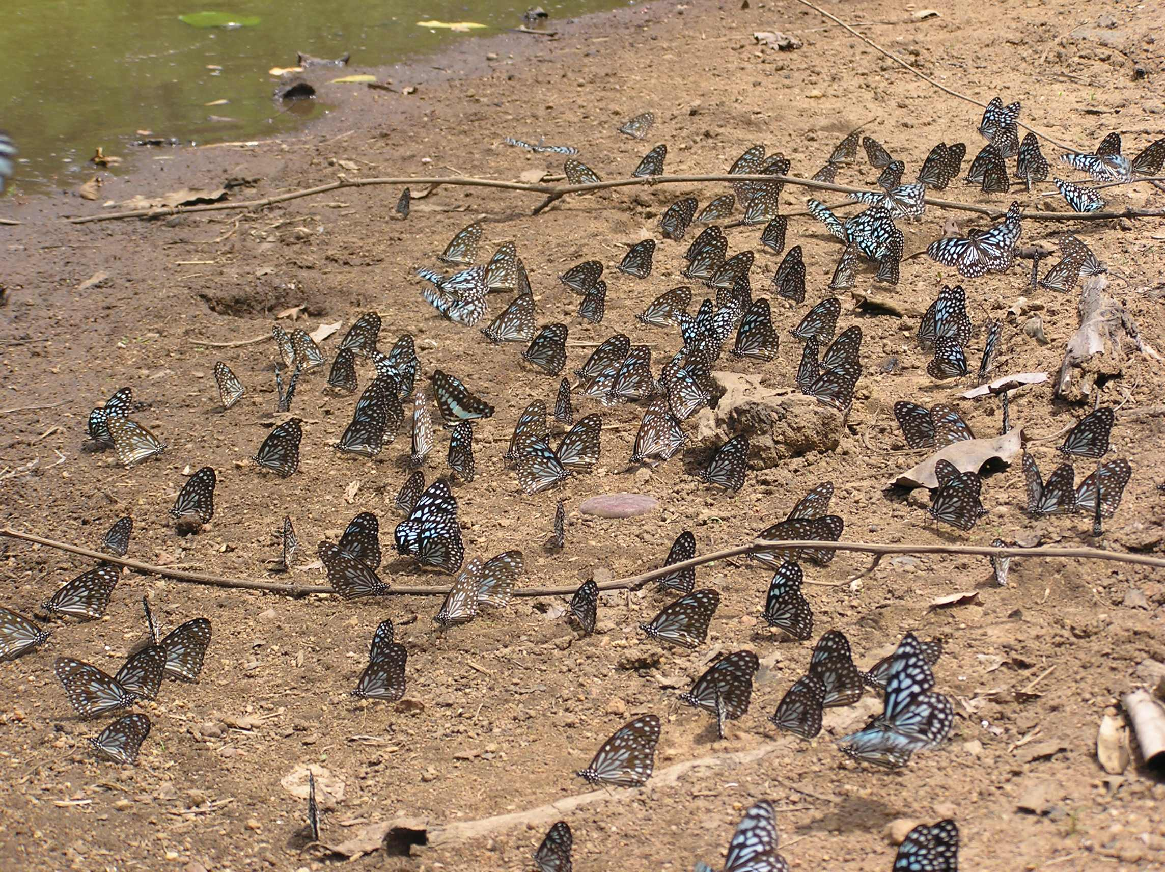 Dark Blue Tigers (Tirumala septentrionis) migrate between Eastern Ghats and Western Ghats in India, twice a year.